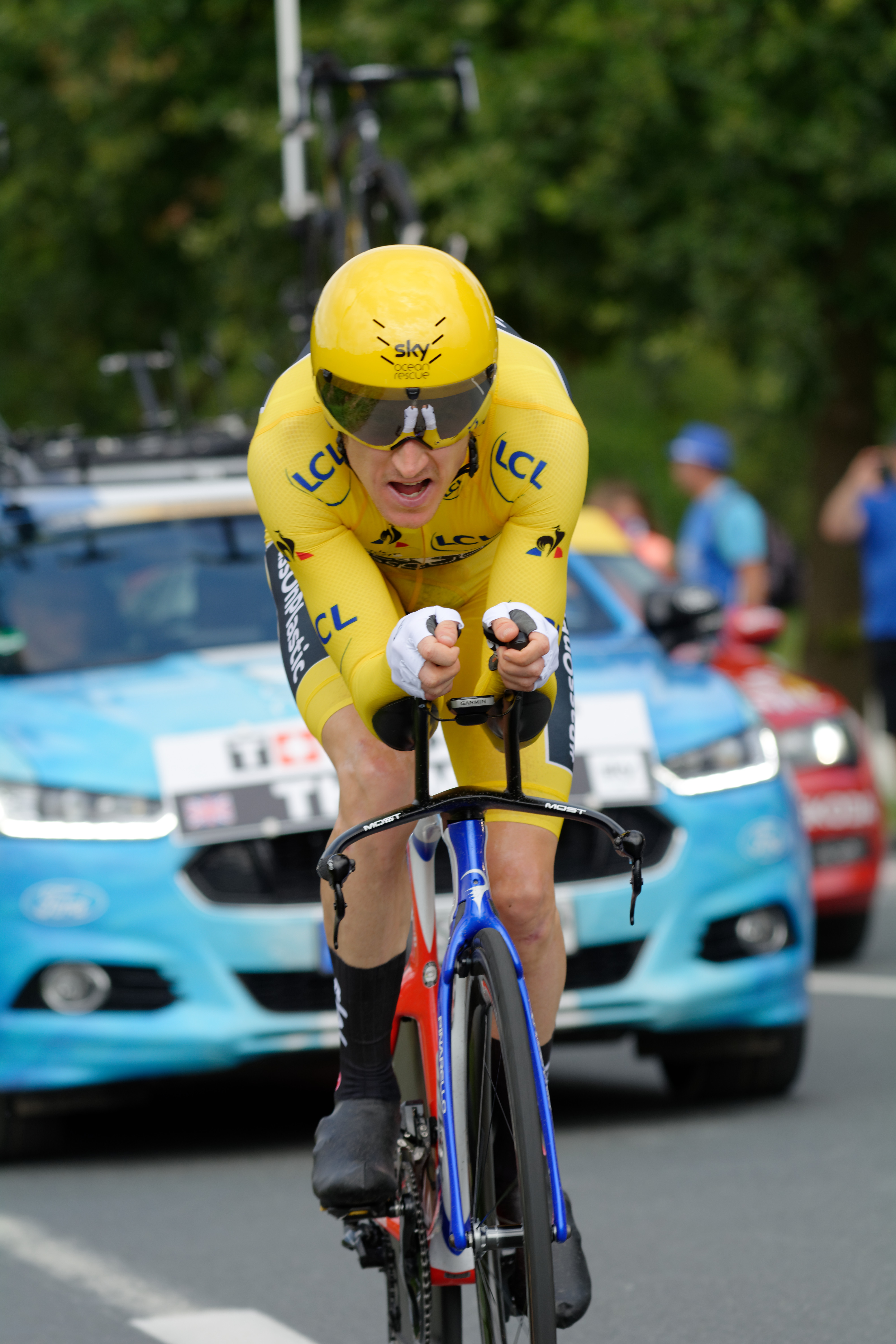 2018 Tour de France